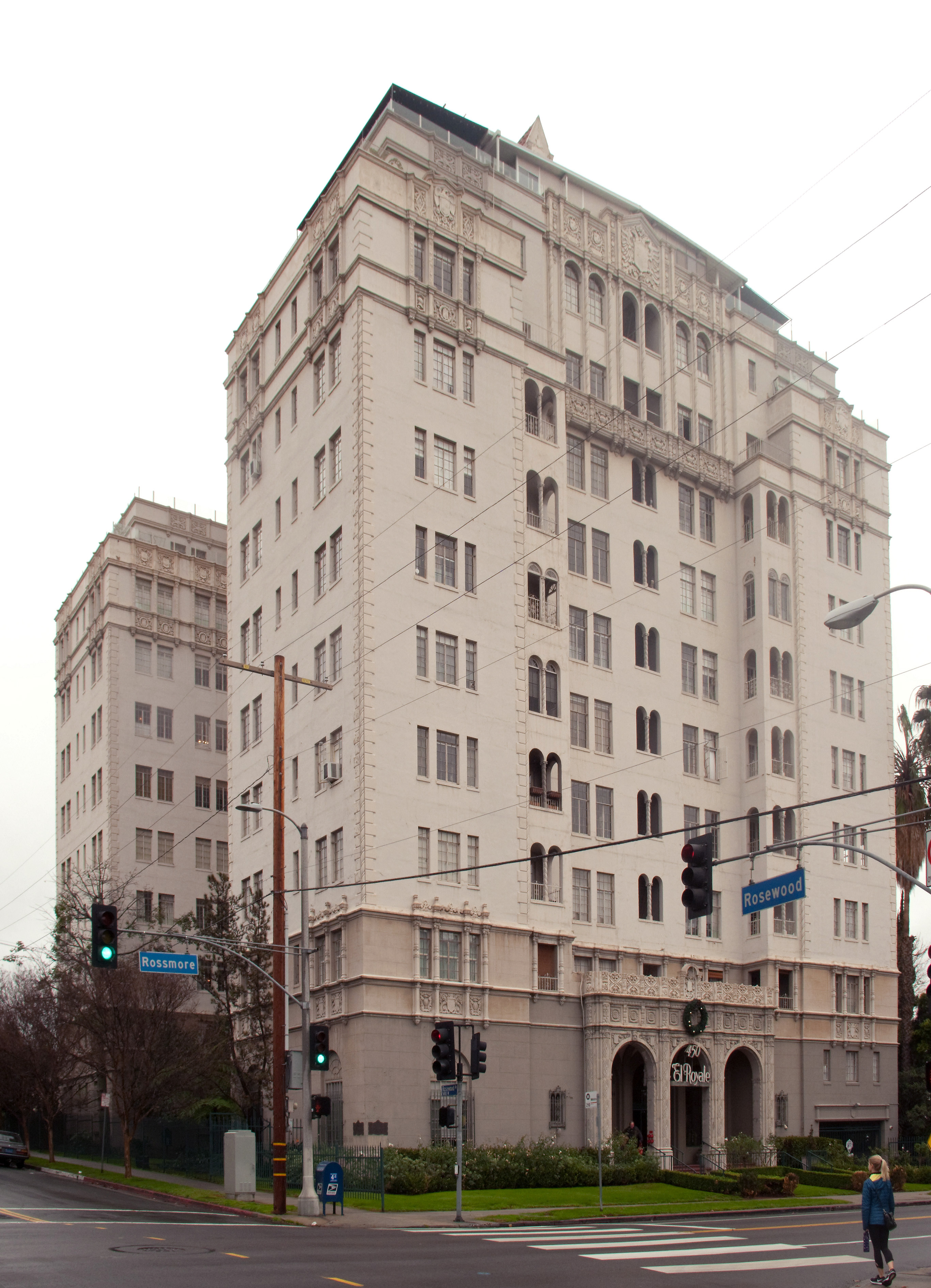 Front of El Royale Apartments,450 N. Rossmore Ave., Los Angeles, CA 90004